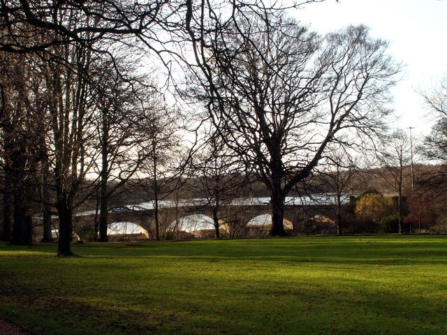 Nostell Bridge Which splits the Upper and Middle Lake at Nostell Priory,also carries the A638 Doncaster, Wakefield trunk road.